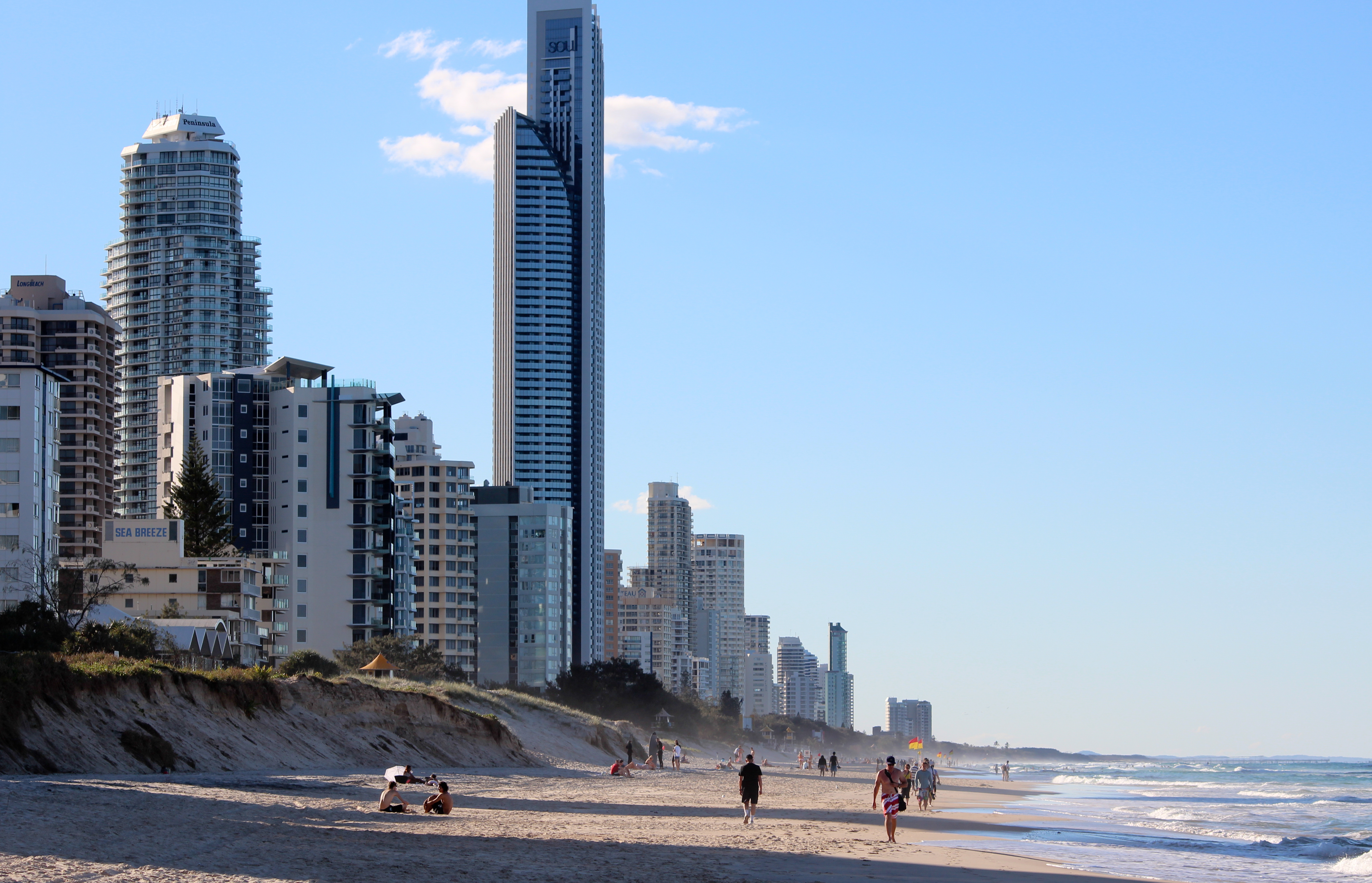 The Surfers Paradise skyline in May 2013.